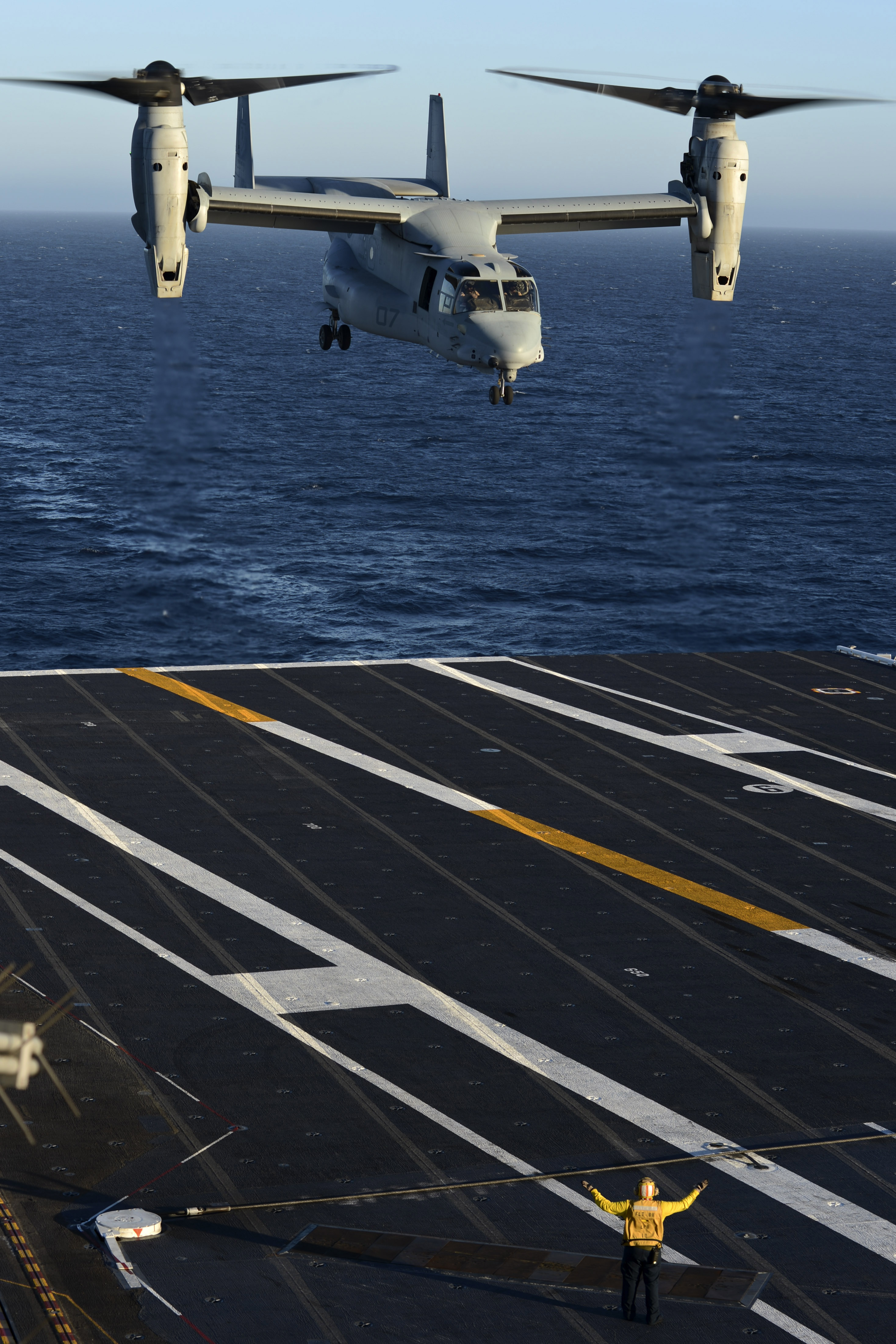 An MV-22 Osprey assigned to Marine Medium Tiltrotor Squadron (VMM) 165 prepares to land on the flight deck of the aircraft carrier USS Nimitz (CVN 68)